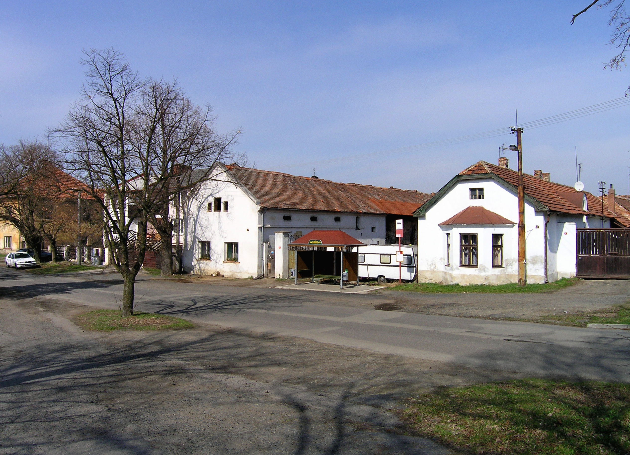 Old farm in Zlončice, Czech Republic